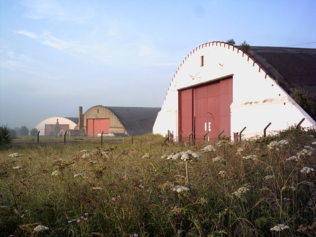 Three of the hangars of the old Burtonwood Air Base. They are due to be demolished as part of a large business development, Photographed by Peter Leather from Joy Lane by Joy Lane Farm. Grid Ref SJ559915 looking south.